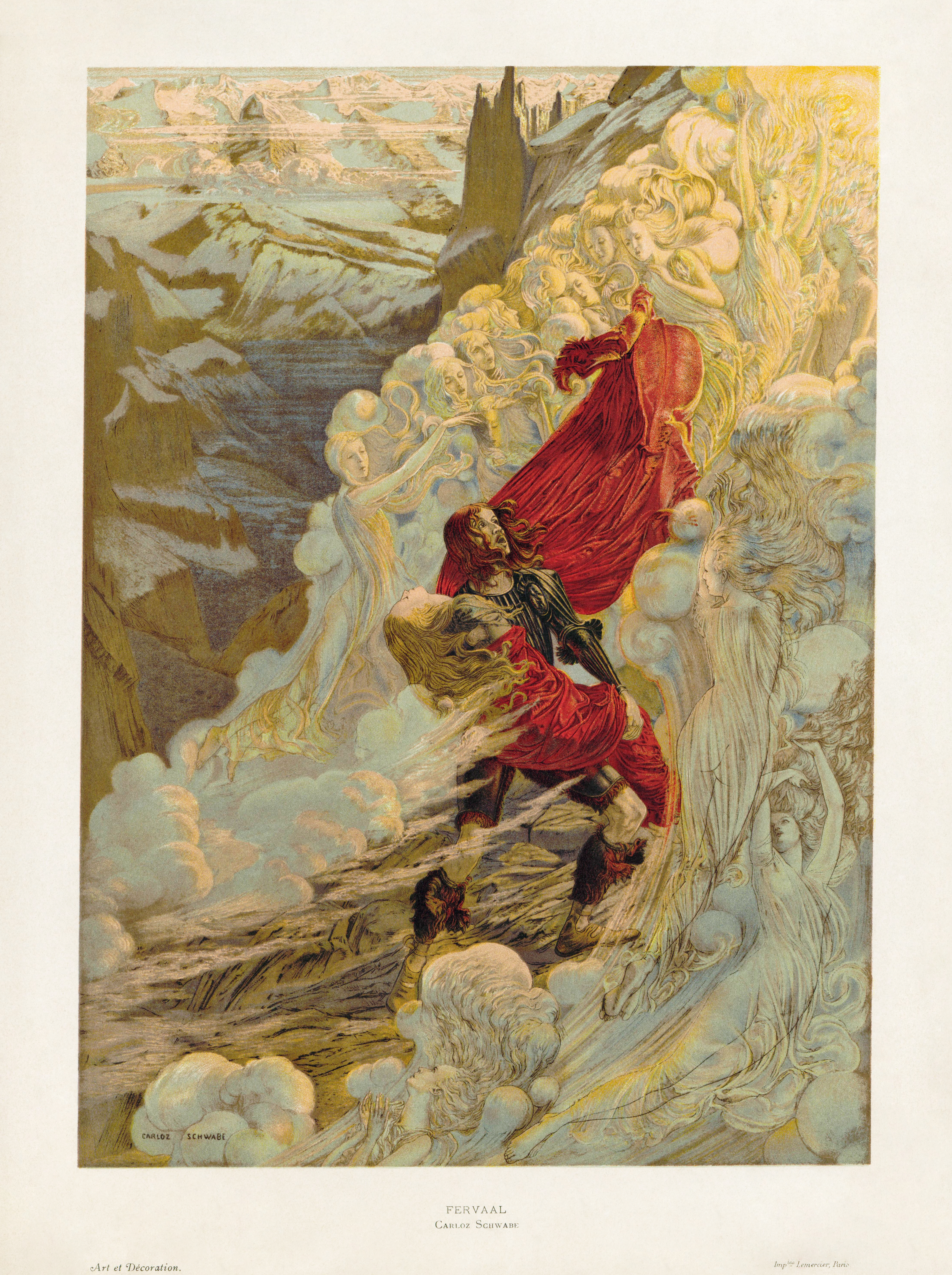 Fervaal, an opera by Vincent d'Indy, first performed in 1897. This illustration is related to the 10 May 1898 production at the Théâtre de l'Opéra-Comique, Paris, with mise en scène d'Albert Vizentini. Printed by Imp. Lemercier, Paris. See also the poster based on the image